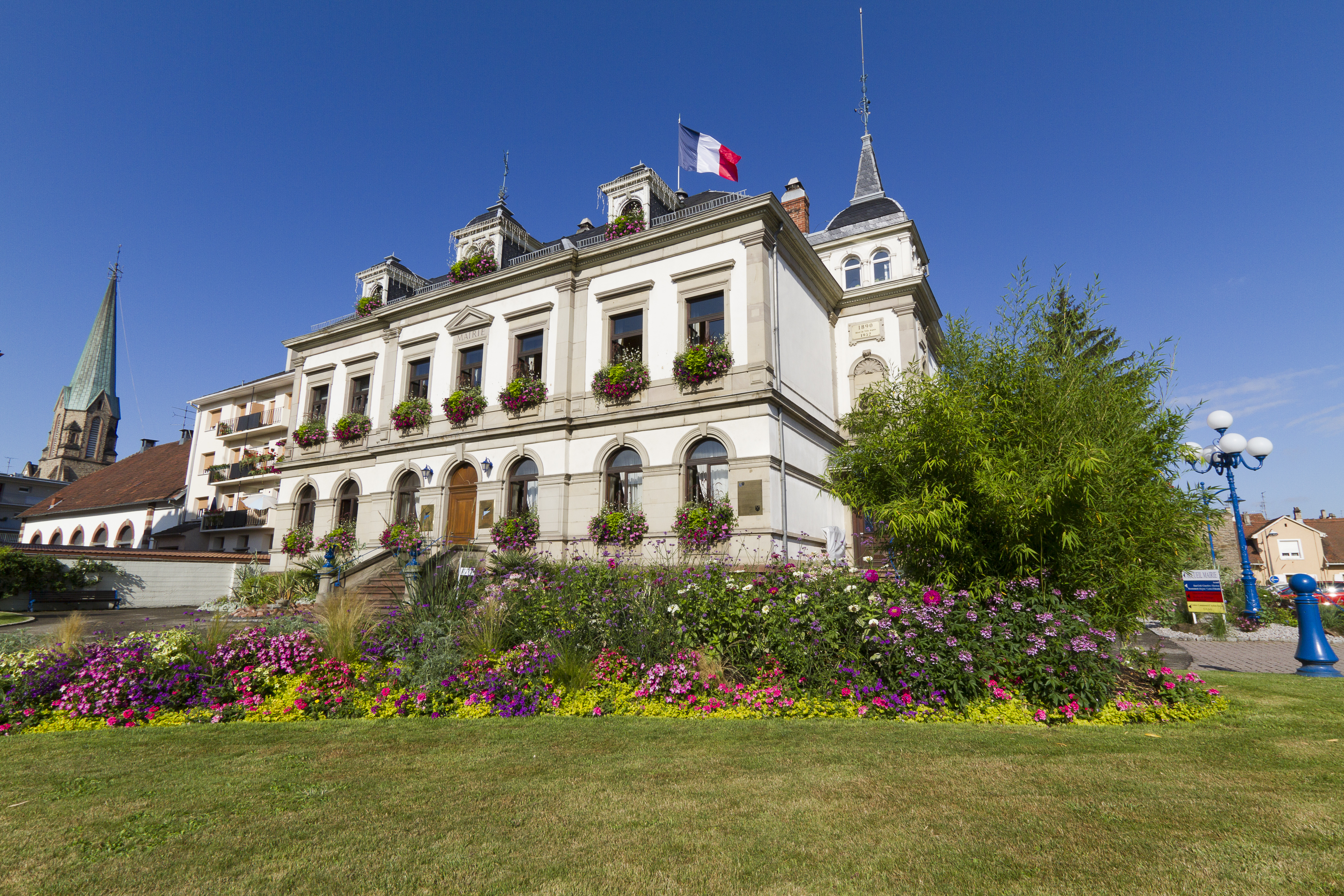 Bischheim town hall, Alsace, France